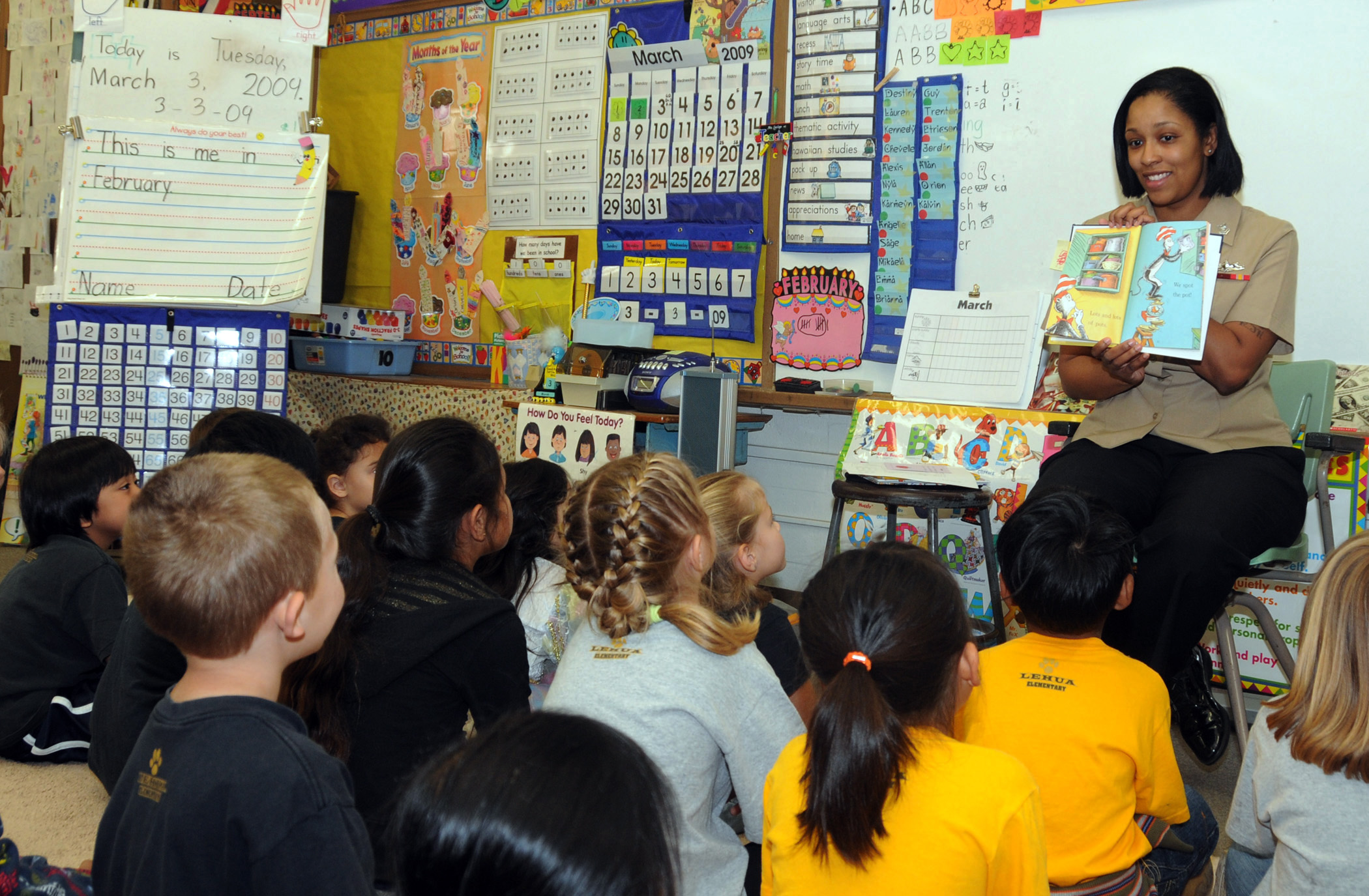 PEARL HARBOR (March 3, 2009) Boatswain's Mate 2nd Class Rasheema Newsome, assigned to Commander, Navy Region Hawaii, reads Dr. Seuss' The Cat in the Hat to kindergarten students at Lehua Elementary School. Students from kindergarten to sixth grade celebrated the 105th birthday of author Theodore Seuss Geisel with readings of his classic books by 10 Pearl Harbor-based Sailors. (U.S. Navy photo by Mass Communication Specialist 3rd Class Robert Stirrup/Released)